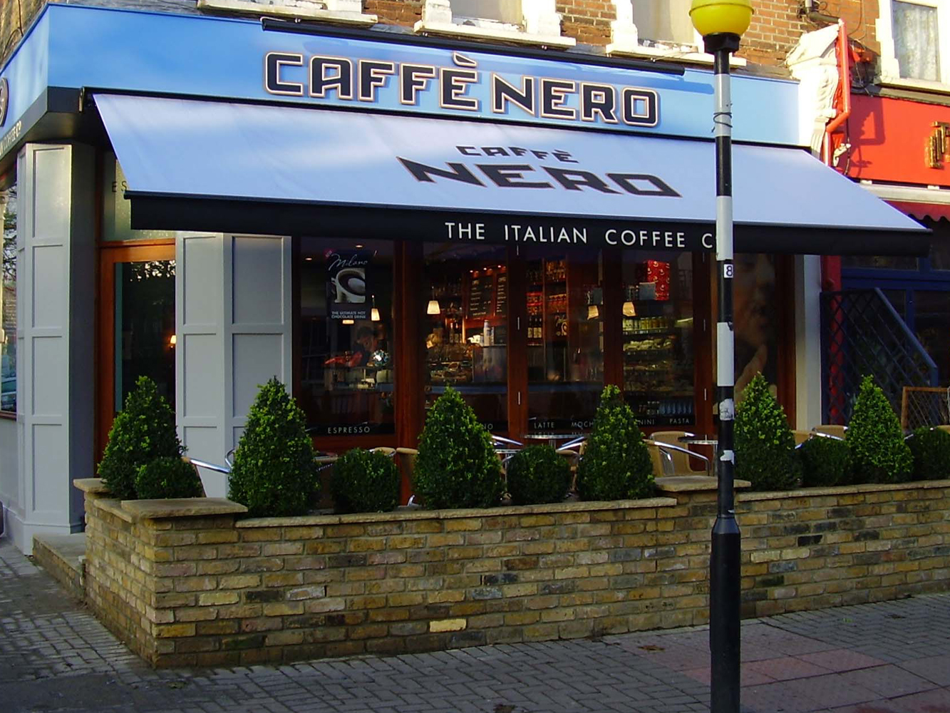 Caffè Nero, 142 Wandsworth Bridge Road, London, SW6 2UL March 2015